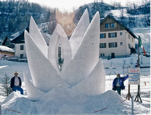 1 Abel Ramírez Águilar with snow sculpture Fleur de Cactus at the 1992 Olympics in Albertville/Valloire, France. Participated with captain Miguel Hernandez Urbán